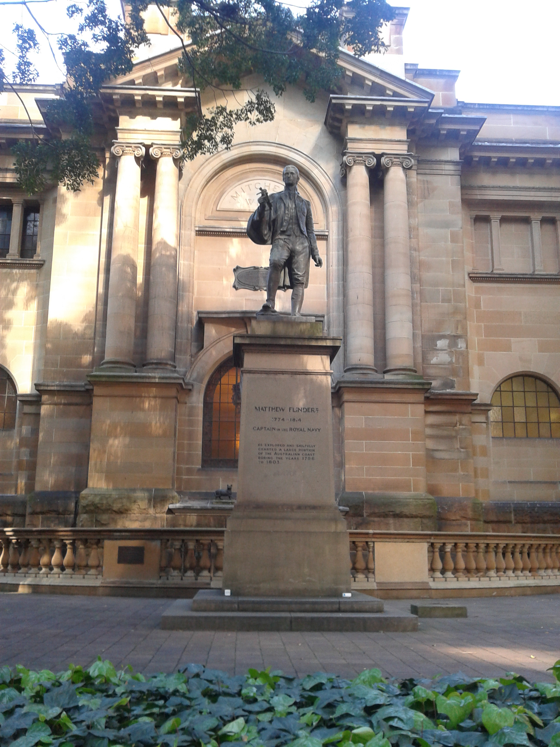 Statue of Matthew Flinders outside the Mitchell Wing of the State Library of New South Wales, Sydney. The statue of his cat Trim is visible on the windowledge behind.